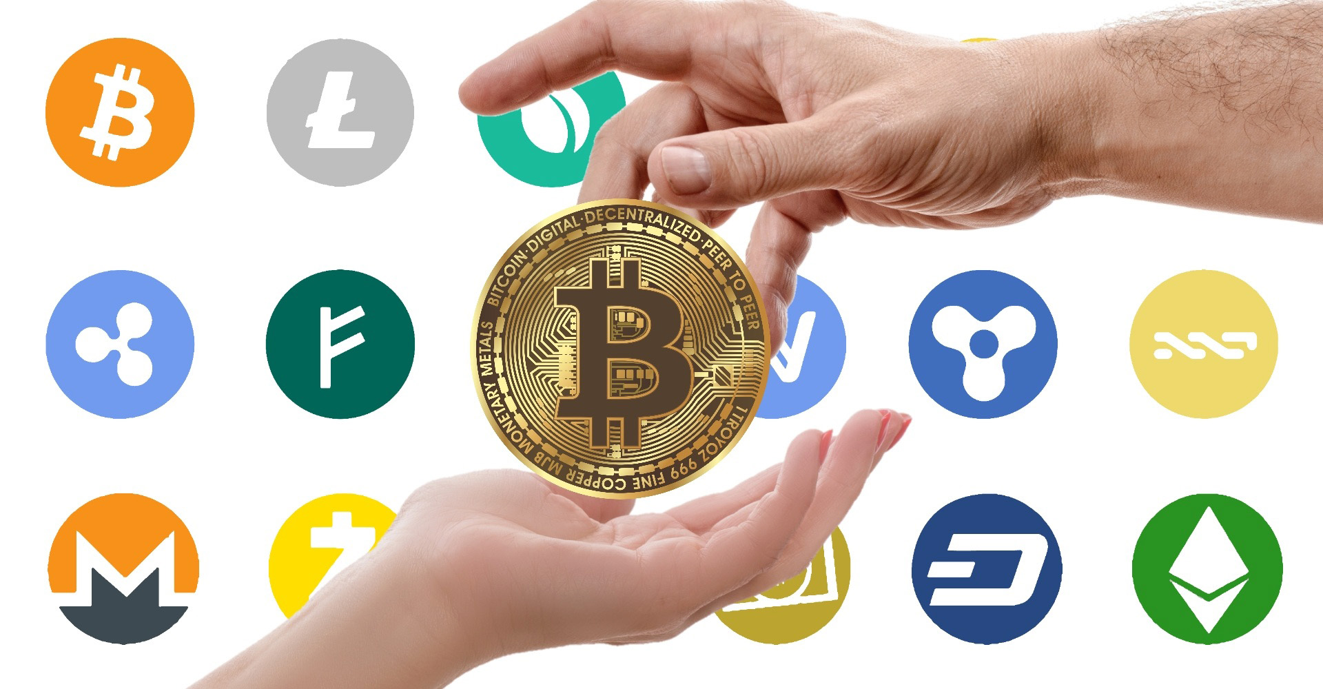 Various different crypto currencies logos. The bitcoin logo in the middle displays two hands, one hand is giving and one hand is receiving, and it is a metaphor for the exchanging of bitcoin.